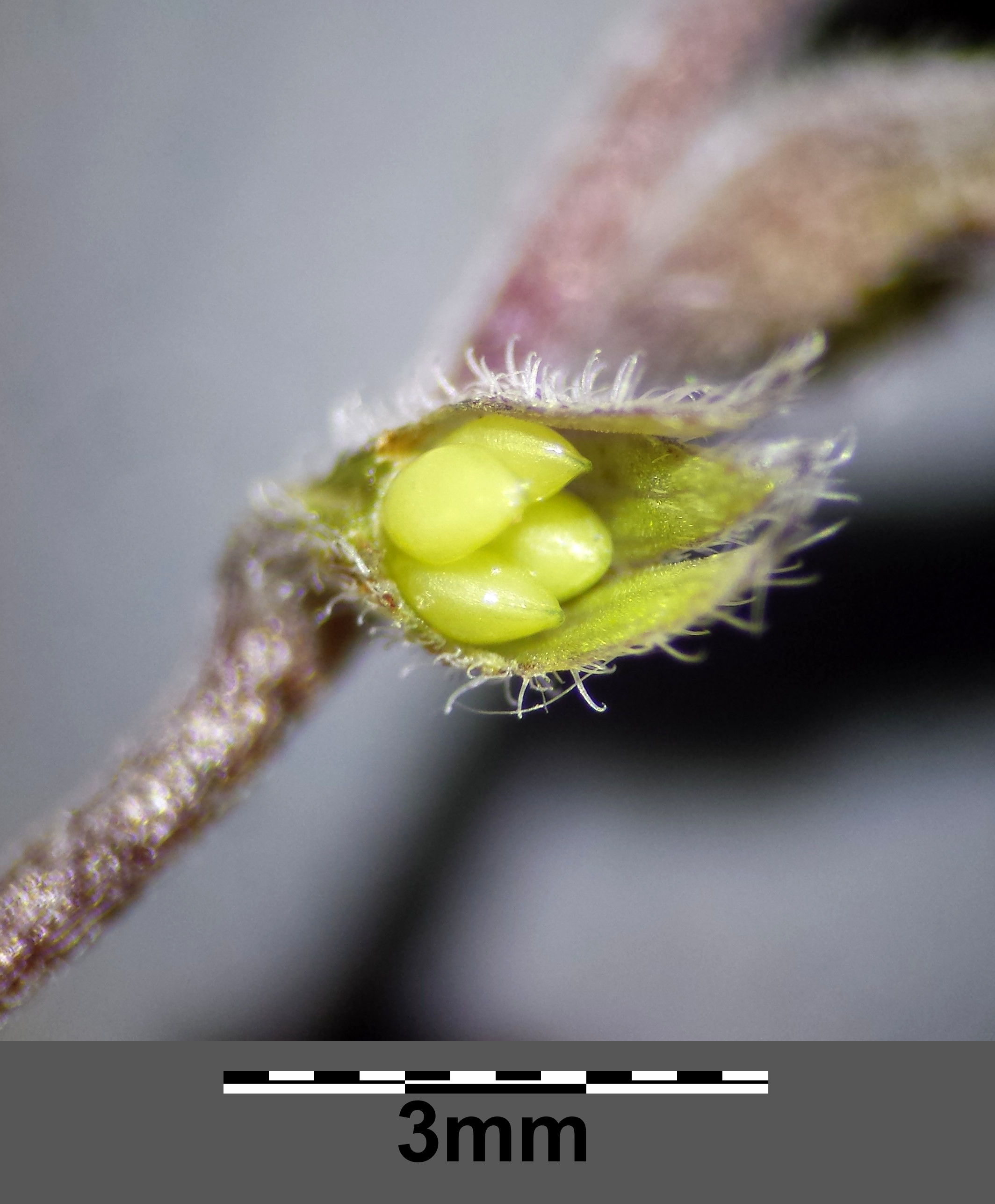 Fruit with fruitlets (front sepals removed) Taxonym: Myosotis stricta ss Fischer et al. EfÖLS 2008 ISBN 978-3-85474-187-9 Location: Jedlersdorf rail station, Vienna-Floridsdorf - ca. 160 m a.s.l. Habitat: sandy area